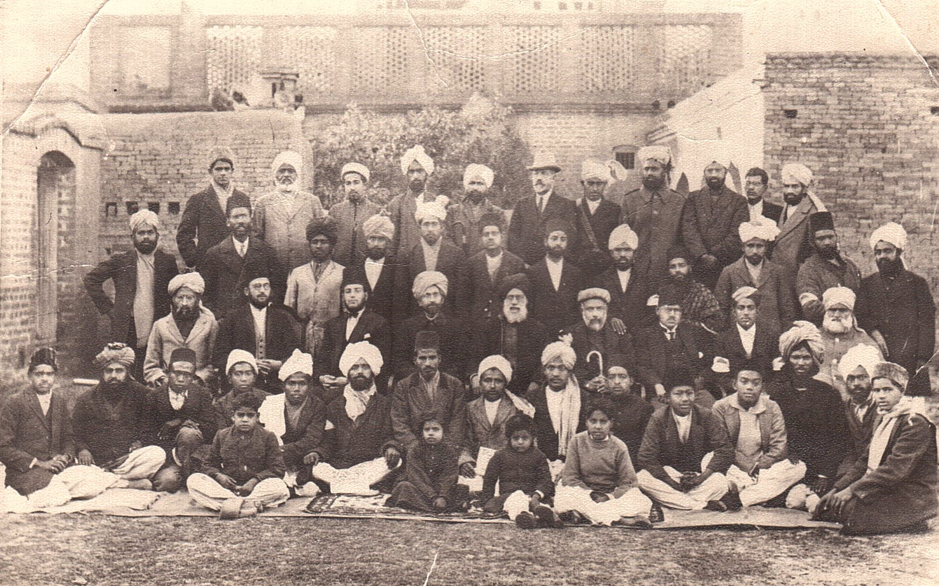 Speeches in many languages in Qadian